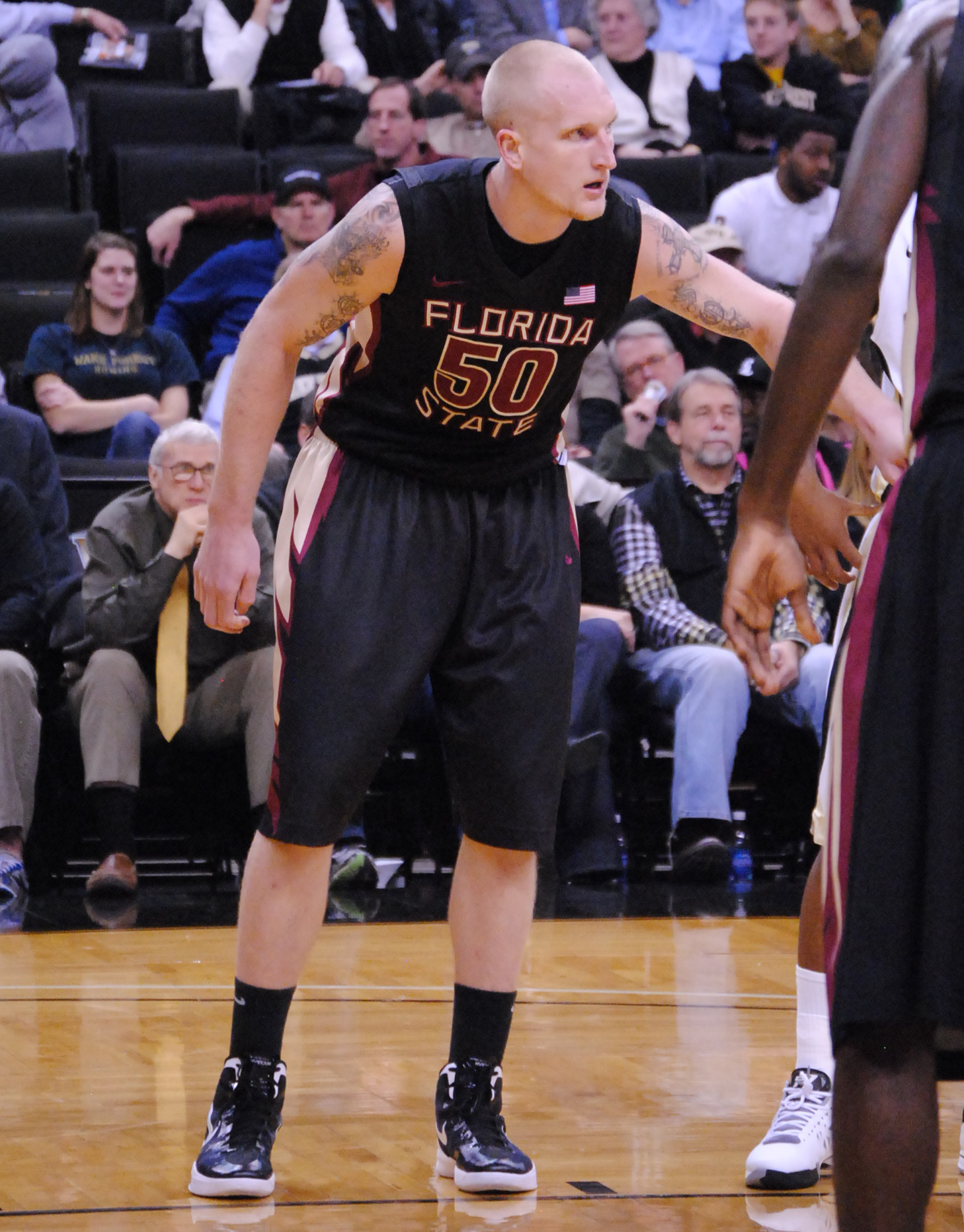 Jon Kreft along the free throw lane